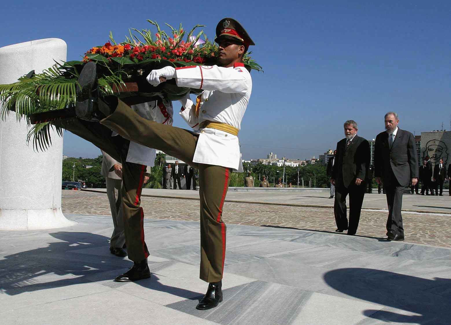 Fidel CASTRO and Luiz Inácio Lula da Silva in front of monument of martyrs at Habana, Cuba.